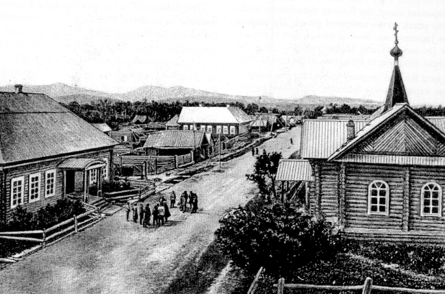 Russian Orthodox church in Vladimirovka village